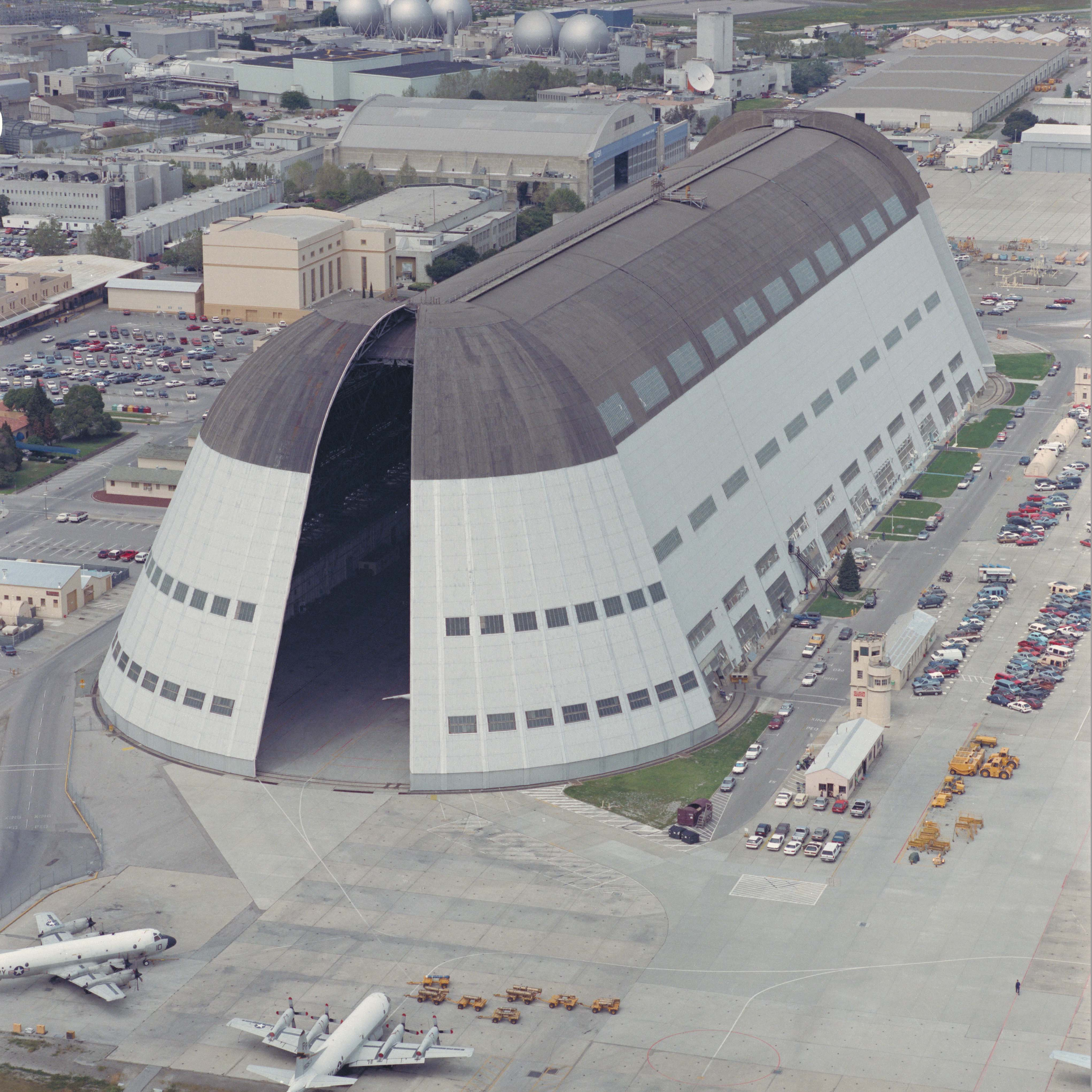 Hangar 1 at Moffett Field, Calif., 1992.